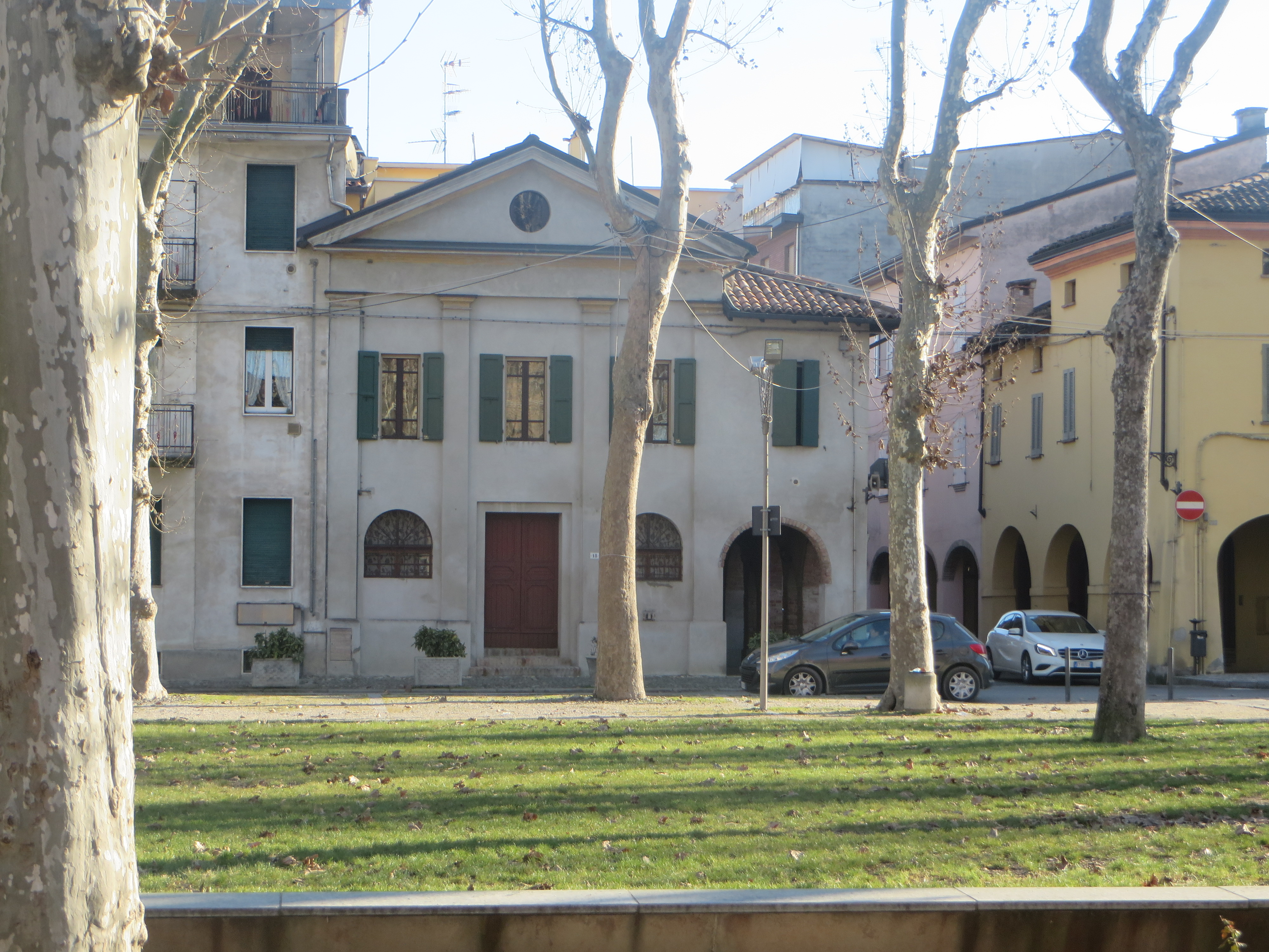 Church